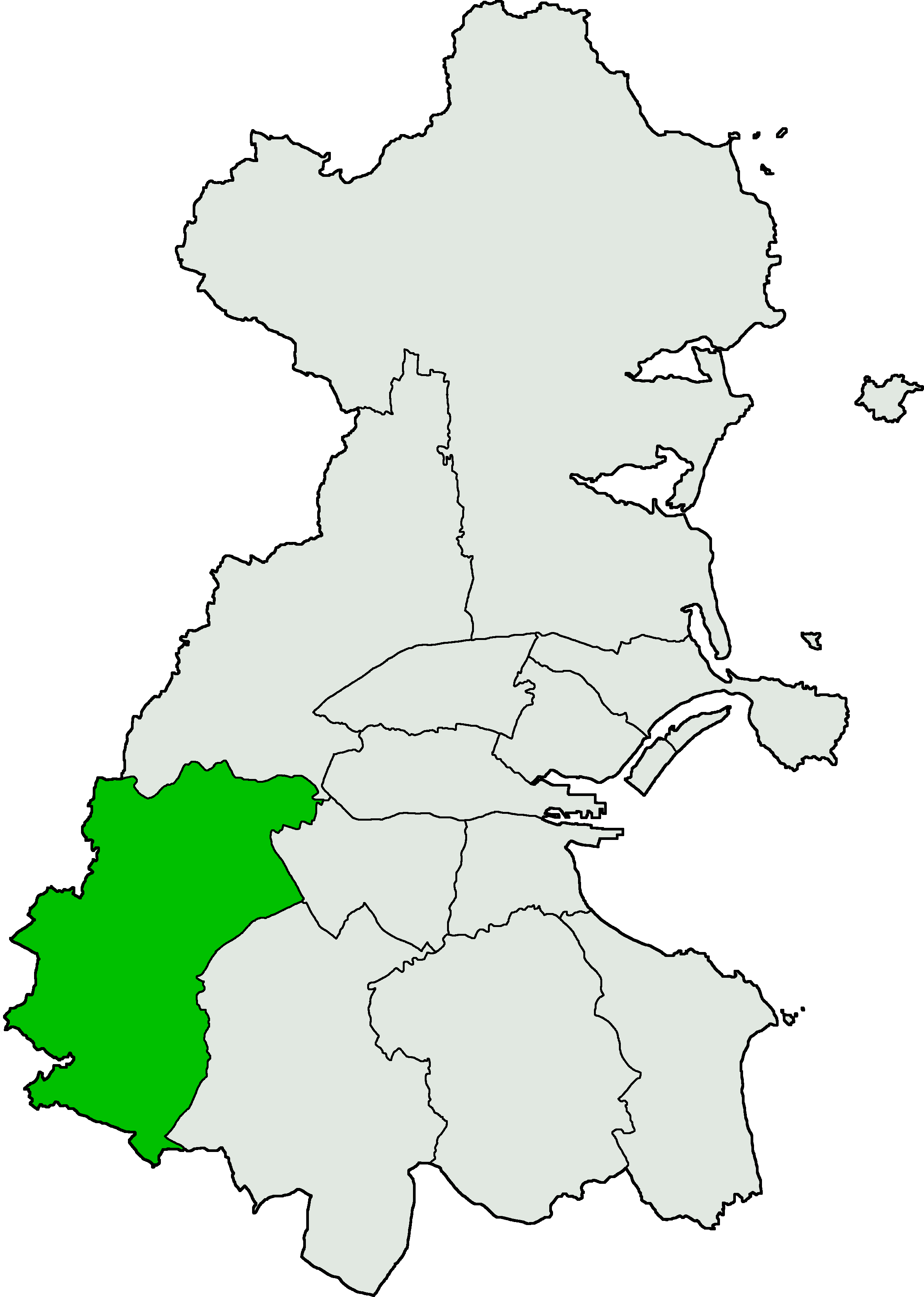 Category:Maps of Dublin